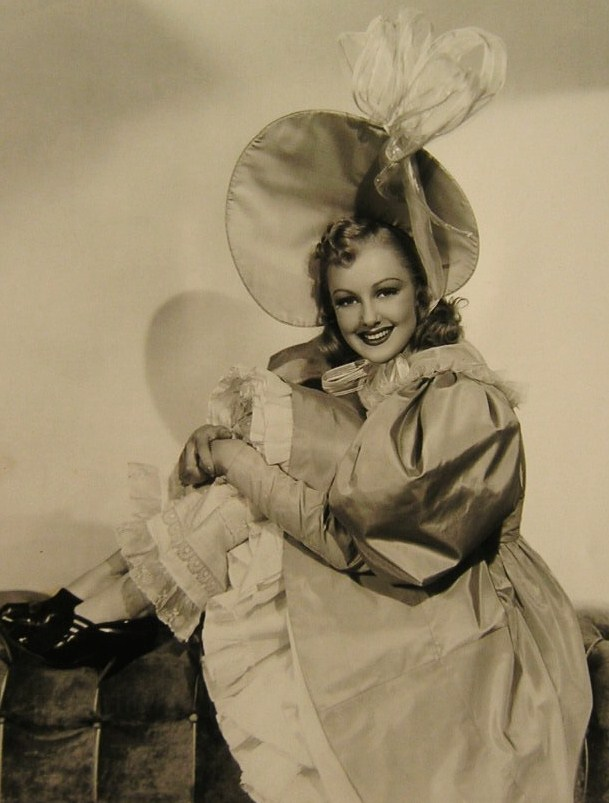 Virginia Grey in Broadway Serenade - publicity still (cropped)